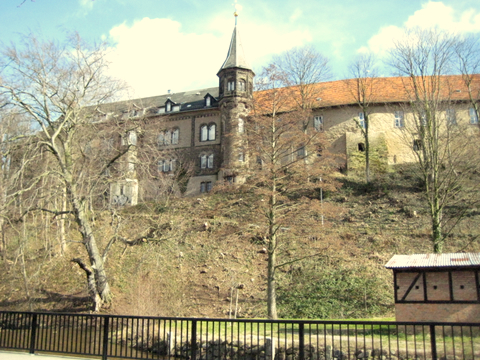 Ilsenburg Castle in the Harz Mountains of Germany